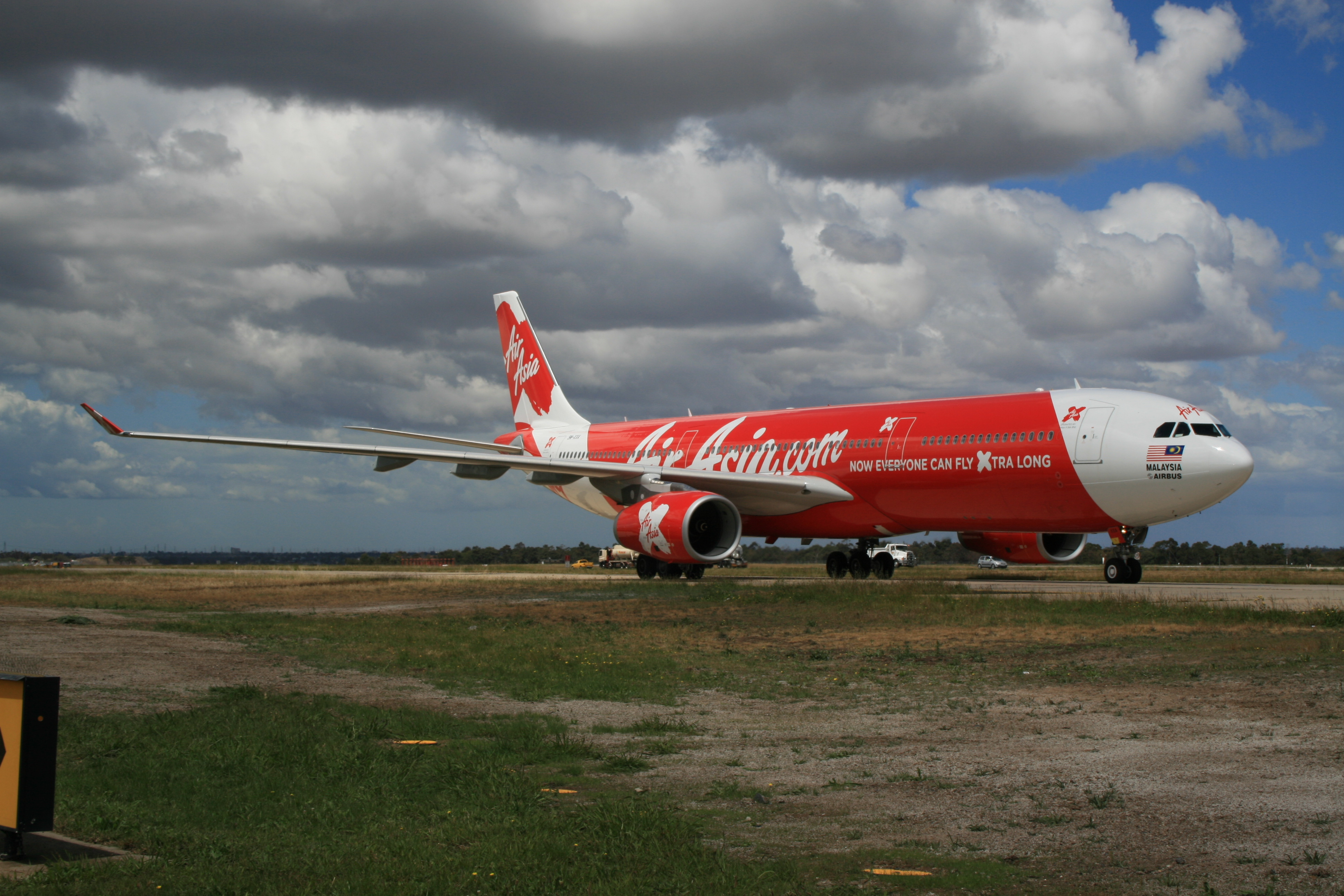 One of AirAsia X's Airbus A330s taxiing at Melbourne Airport in Australia.